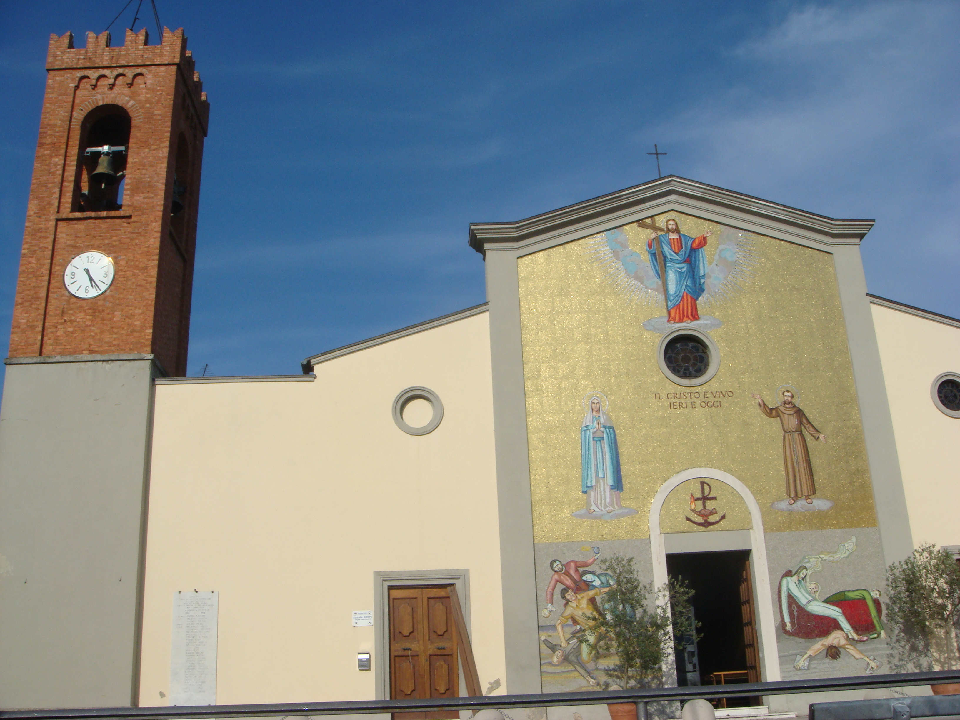 Church of Torricchio, Uzzano, Tuscany